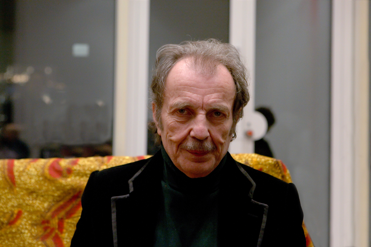 Austrian sculptor Franz West at Cologne, Museum Ludwig